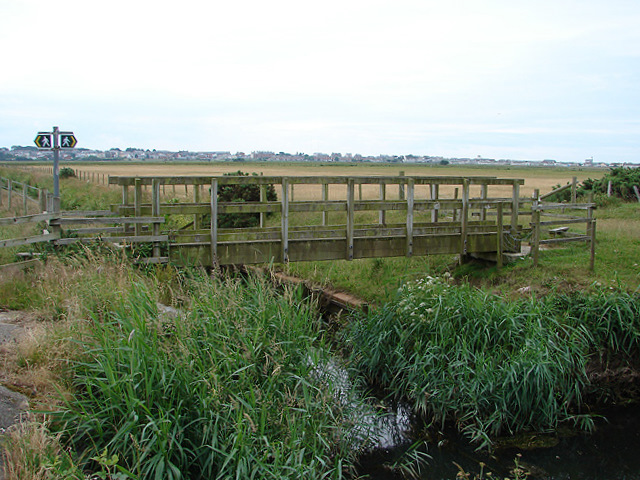 Footbridge at Morfa Gwyllt